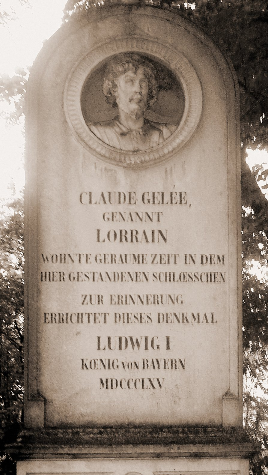 Memorial for Claude Lorrain next to church St. Anna in München - Harlaching.